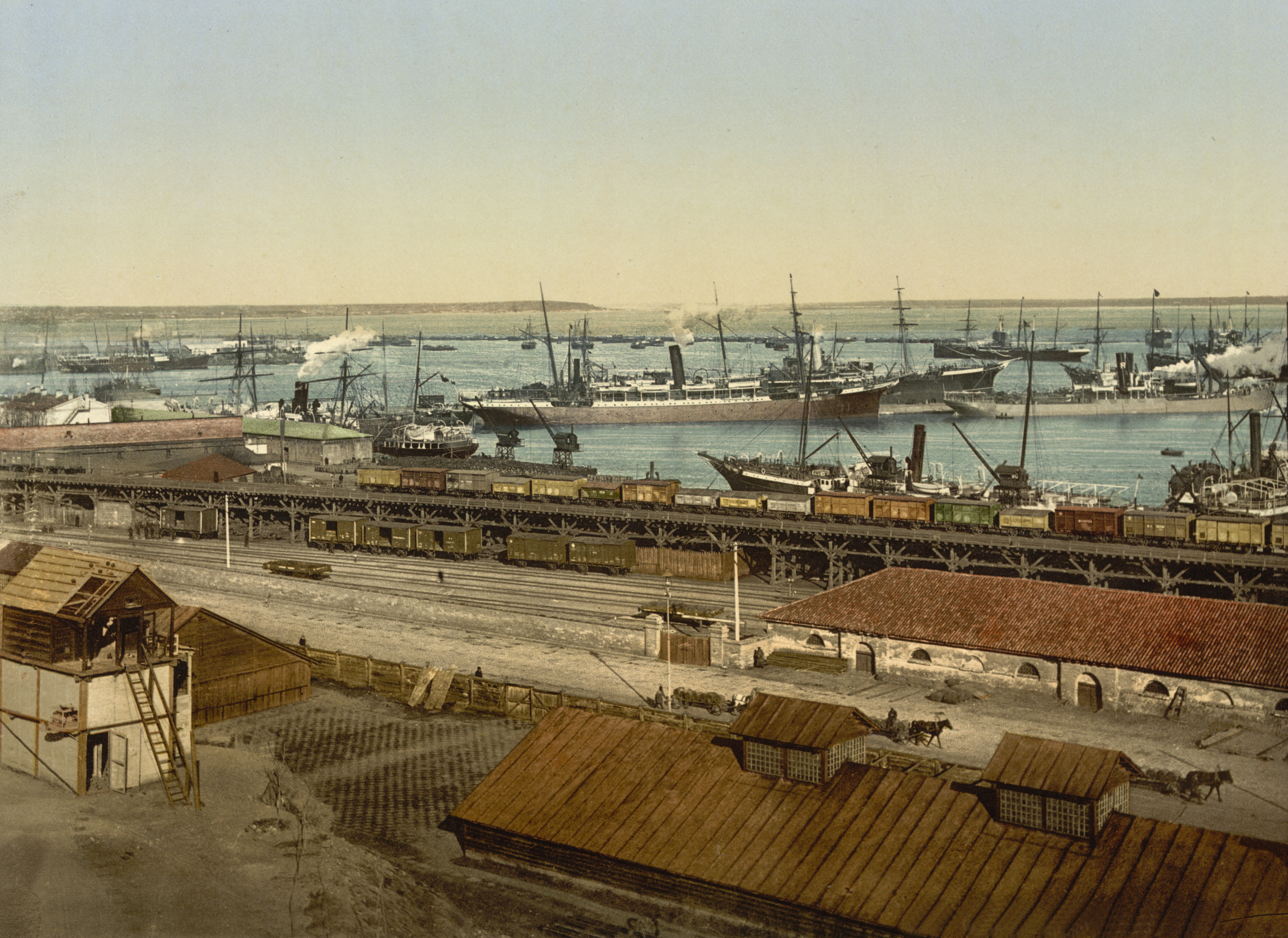 Odessa Port, The Practical Harbour (Prakticheskaya gavan), Odessa, Russia, (now Ukraine) Print no. "8891"